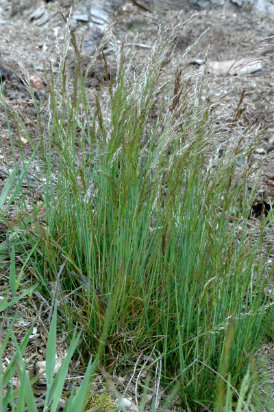 Picture taken in Commanster, Belgian High Ardennes . Species: Deschampsia flexuosa